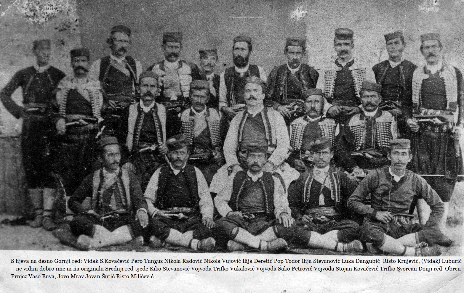 Leaders of the Herzegovina Uprising (1875–77). 1st row: 1. Vidak S. Kovačević, 2. Pero Tunguz, 3. Nikola Radović, 4. Nikola Vujović, 5. Ilija Deretić, 6. Pop Todor Komnenić, 7. Ilija Stevanović, 8. Luka Dangubić, 9. Risto Krnjević, 10. Vidak Luburić 2nd row: 1. Kiko Stevanović, 2. Vojvoda Trifko Vukalović, 3. Vojvoda Šako Petrović, 4. Vojvoda Stojan Kovačević, 5. Trifko Svorcan 3rd row: 1. Obren Prnjez, 2. Vaso Buva, 3. Jovo Mrav, 4. Jovan Šutić, 5. Risto Milićević